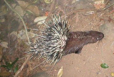 The Himalayan Crestless Porcupine or the Malayan Porcupine seen in a camera trap photo from Pakke Tiger Reserve in North-eastern India